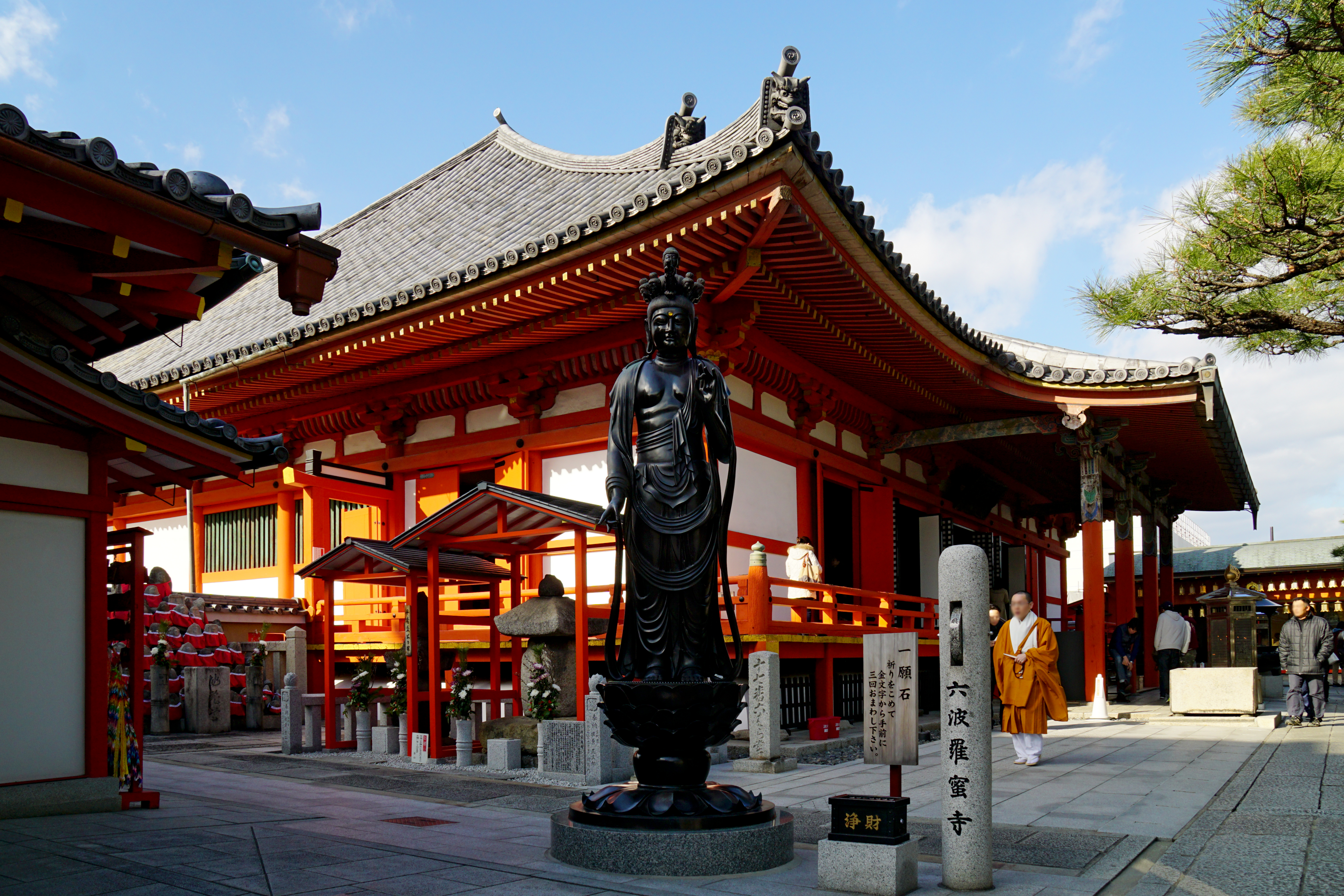 Rokuharamitsu-ji, Higashiyama-ku, Kyoto, Kyoto prefecture, Japan.